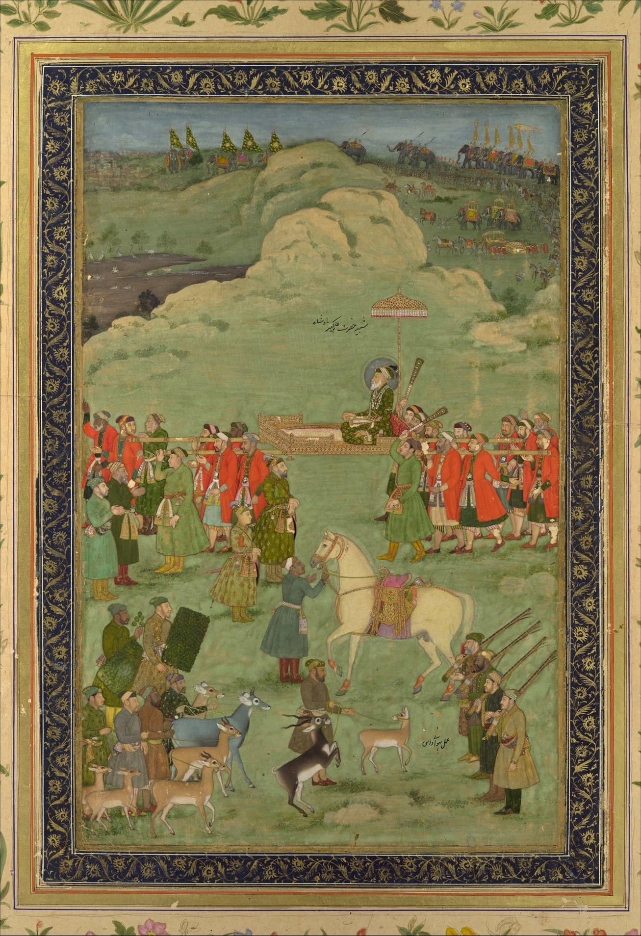 Bhavanidas. The Emperor Aurangzeb Carried on a Palanquin ca. 1705–20 Metripolitan Museum of Art.